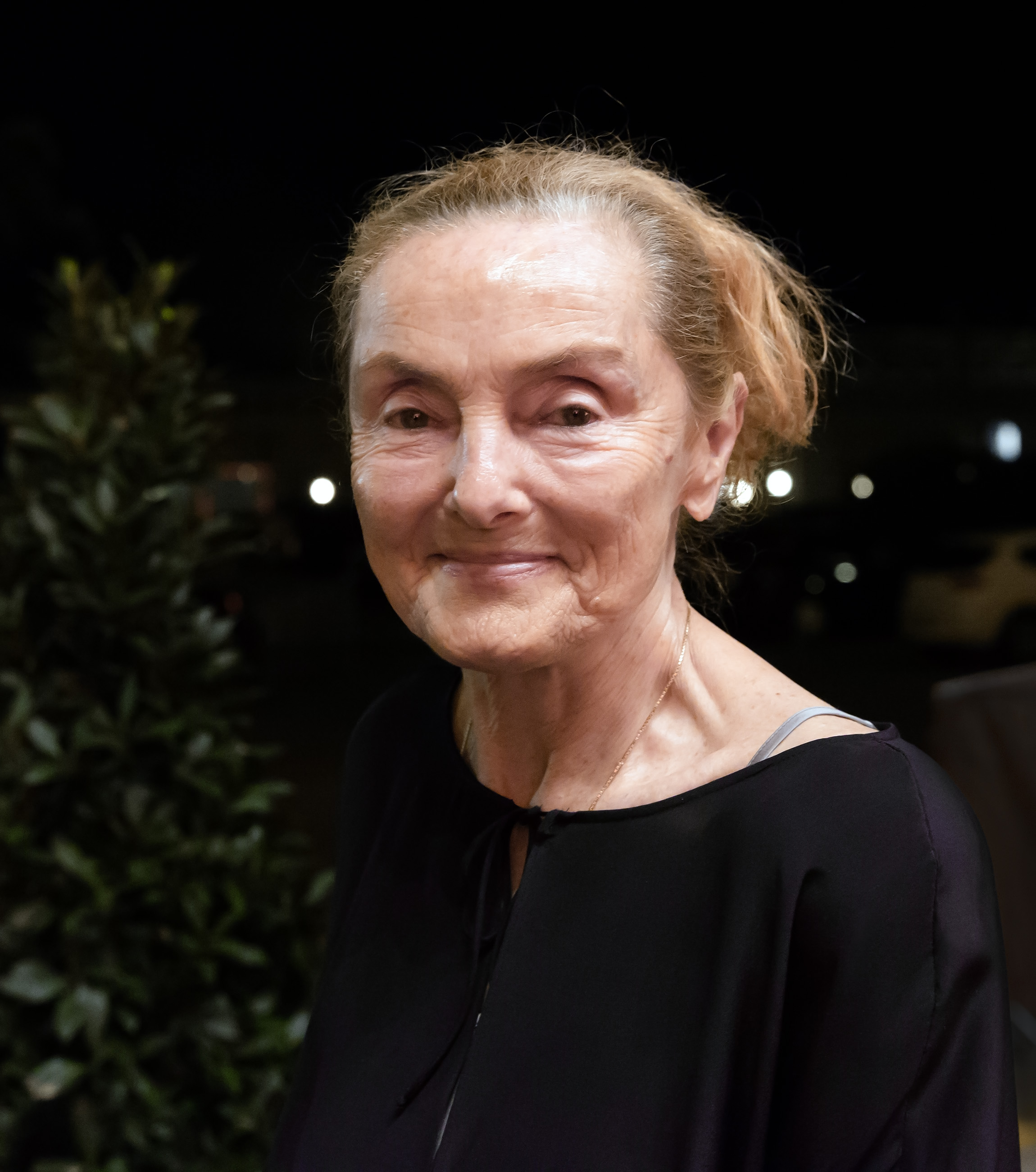 Erni Mangold on the red carpet of the Romy TV awards at Hofburg Palace in Vienna, Austria.